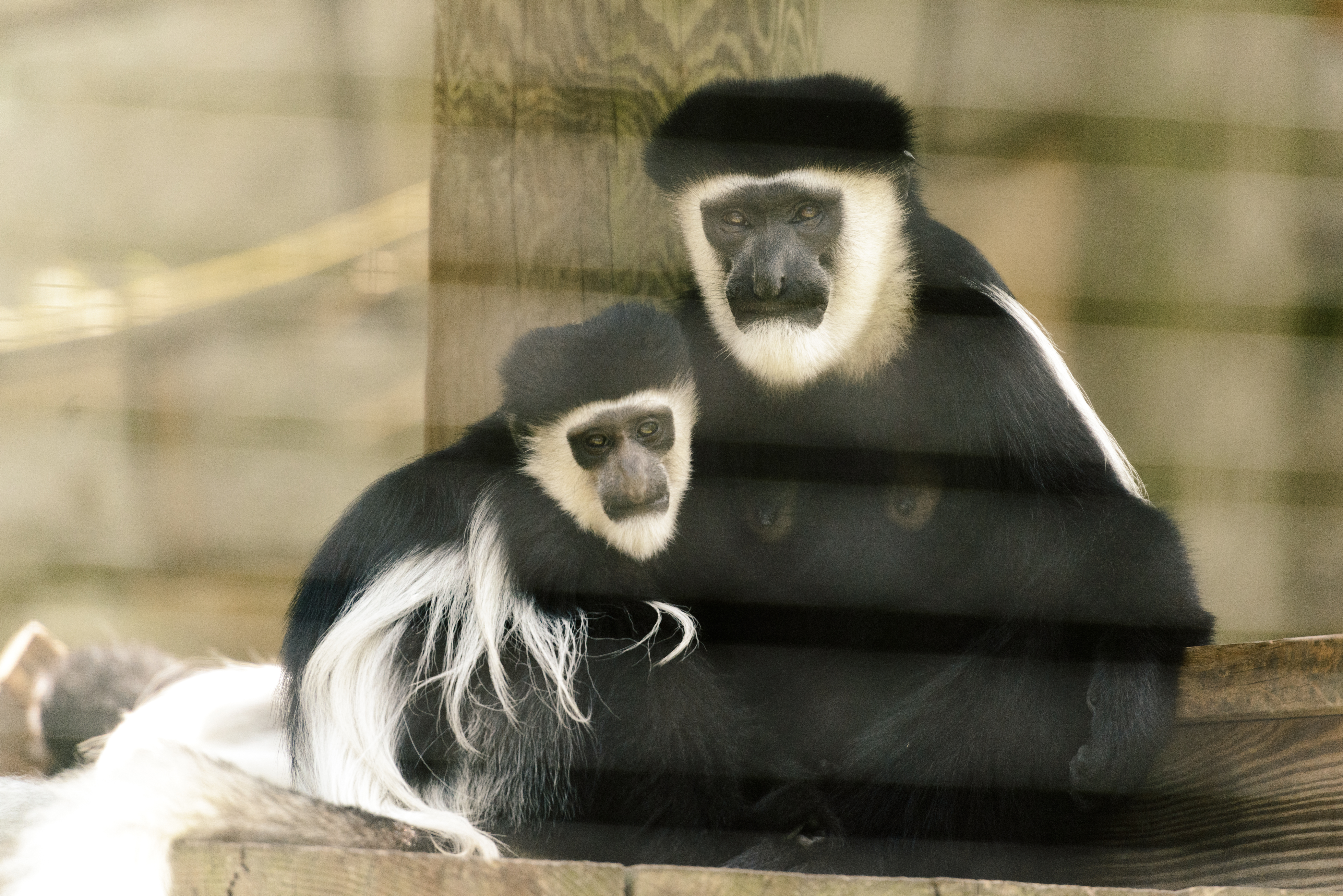 Colobus Monkey Mom and Baby